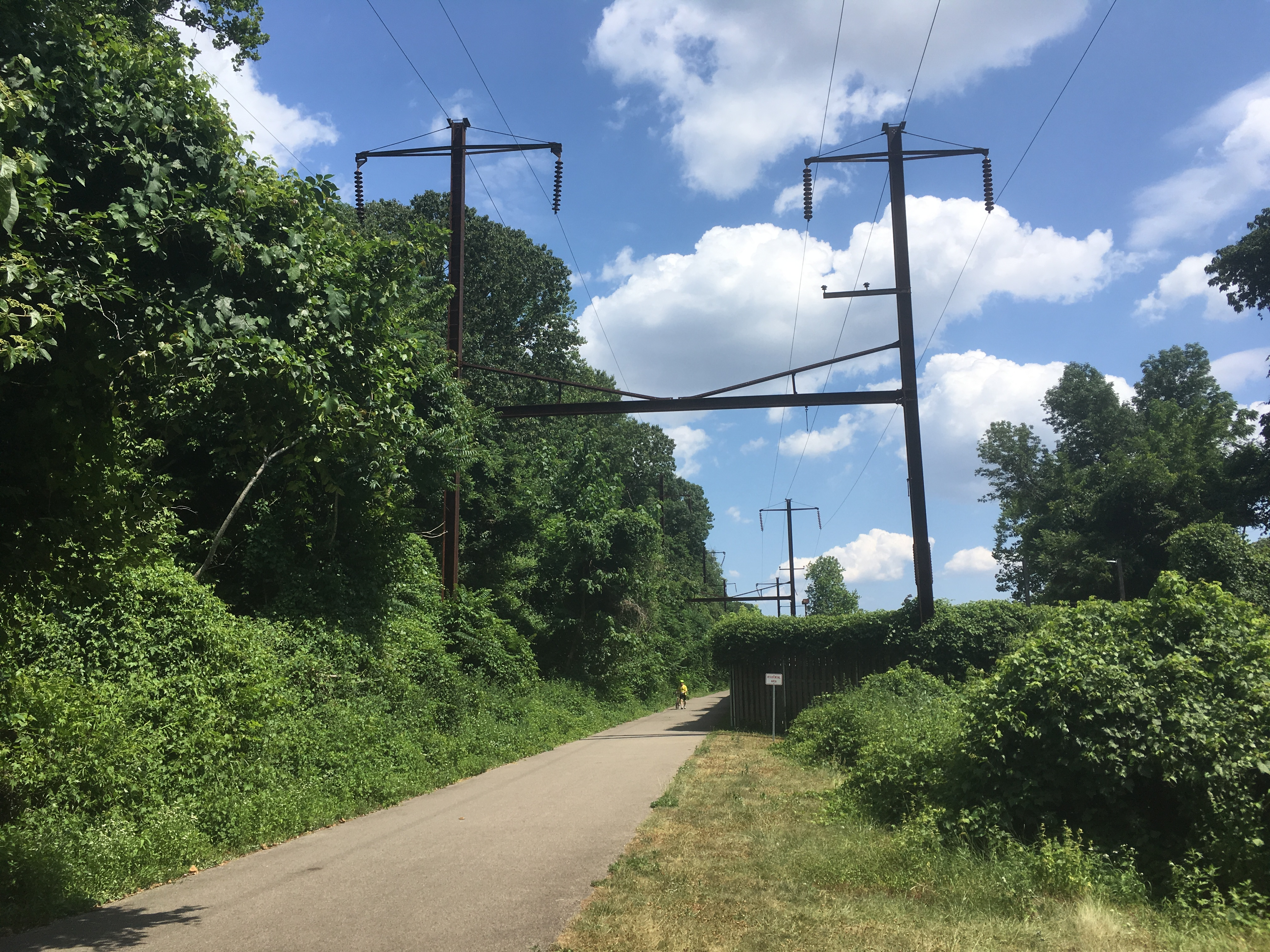 The Schuylkill River Trail eastbound in the Roxborough neighborhood of Philadelphia, Pennsylvania